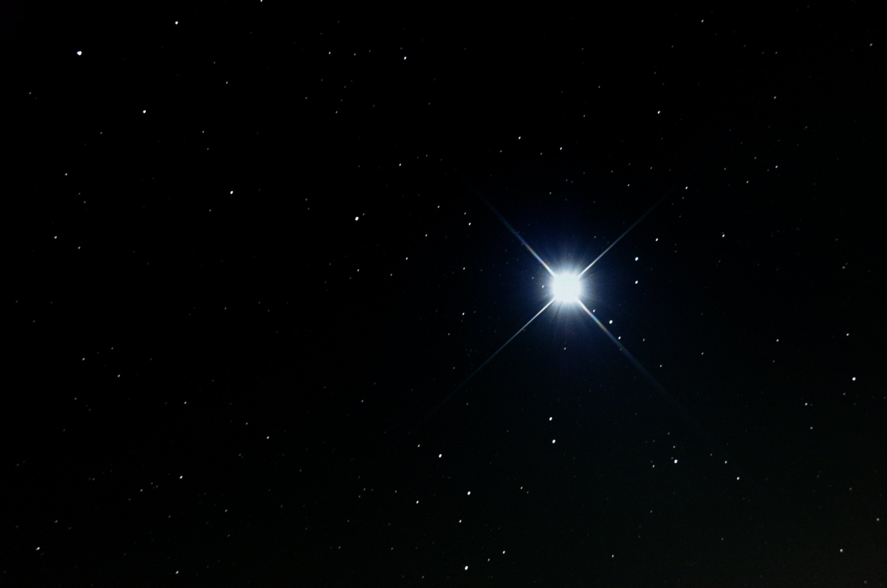 Sirius, the brightest star in the night sky.